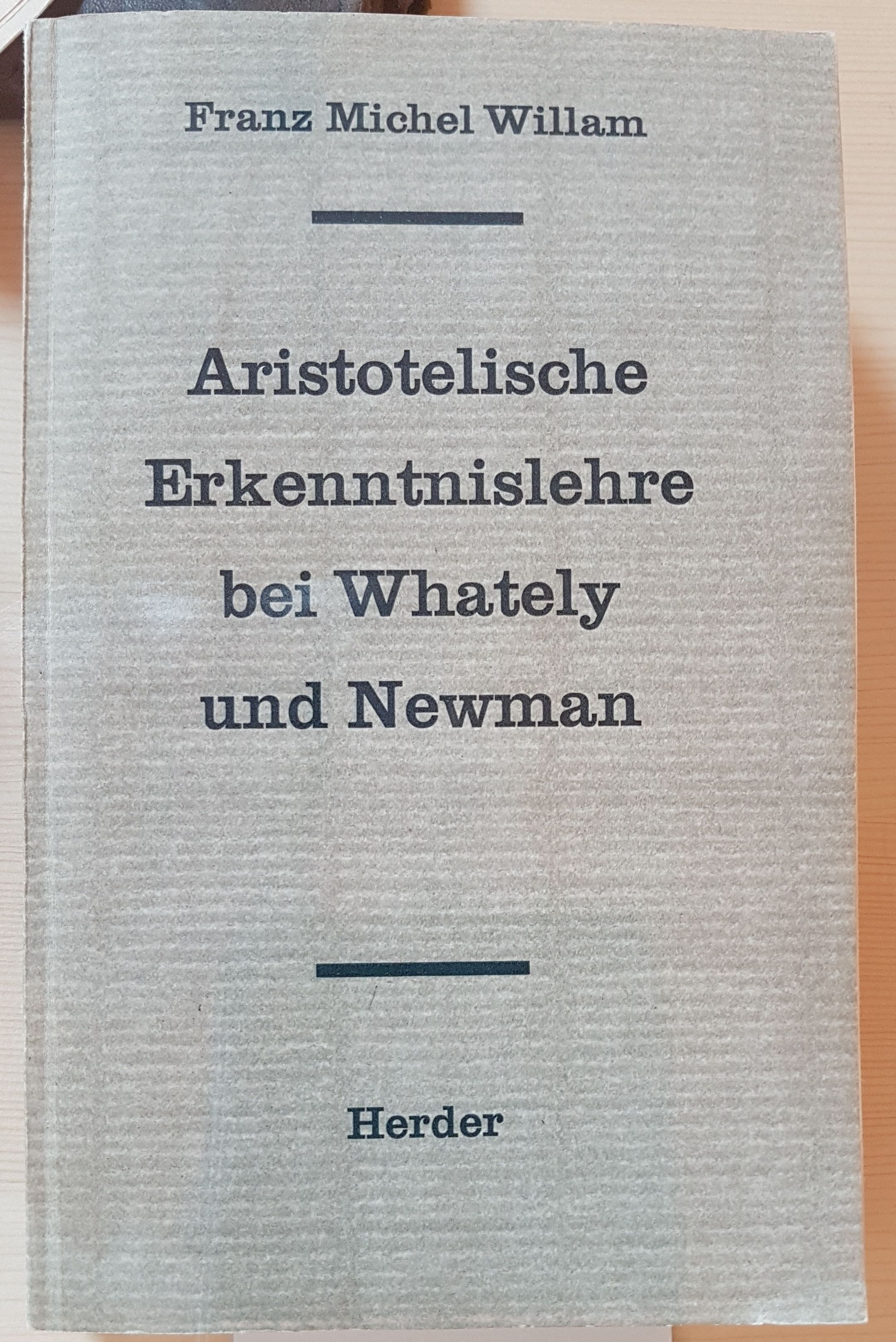 Franz Michel Willam (1894 - 1981), priest, theologian and author in Andelsbuch, Vorarlberg, Austria.